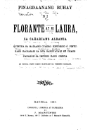 A cover of Florante at Laura